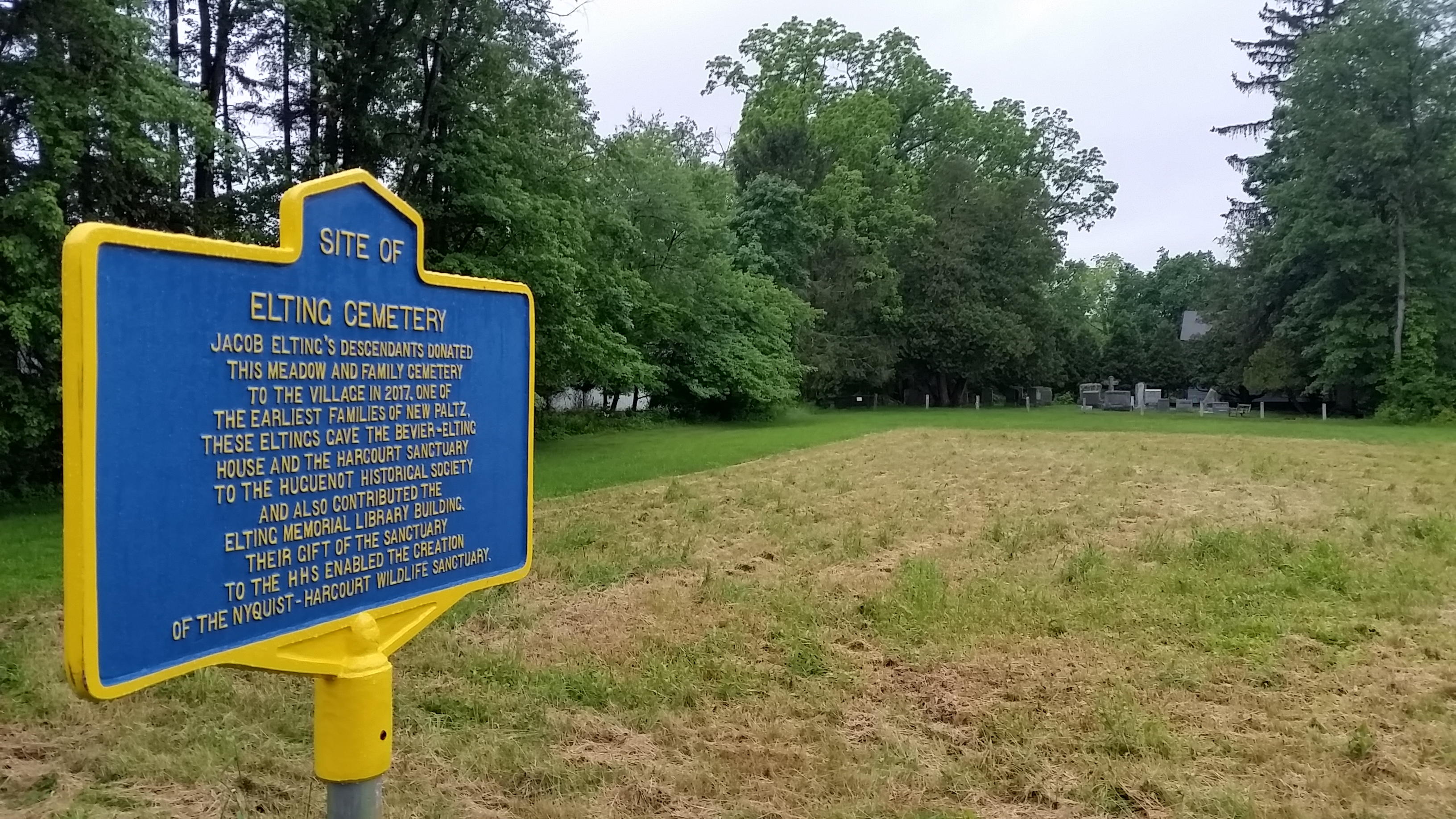 NY State historical marker for the Elting Cemetery in New Paltz, New York